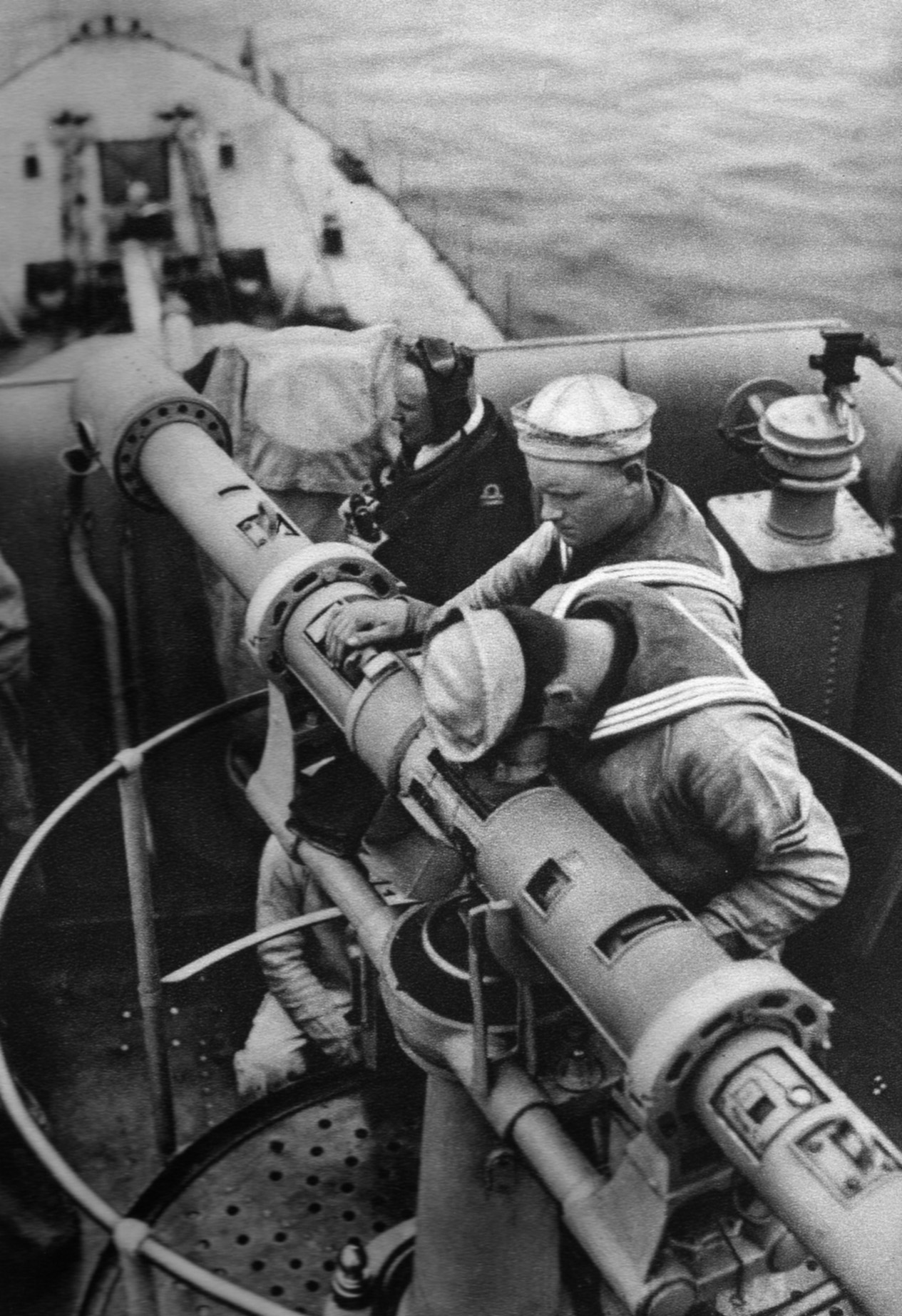 Range-finder of the Polish destroyer ORP Wicher (sunk 3 September 1939)